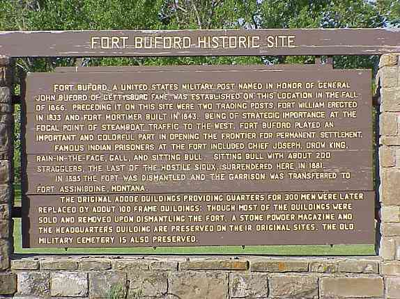 Sign at Ford Buford